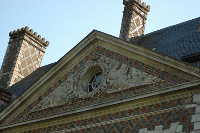 frontons chateau